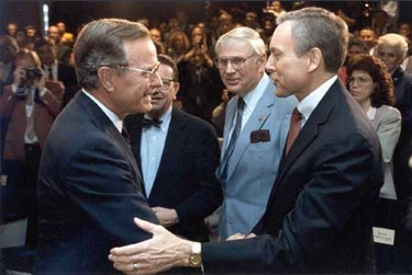 Senator Hatch worked closely with President Bush throughout his administration, including the Gulf War and some extremely partisan Supreme Court judicial nomination proceedings.